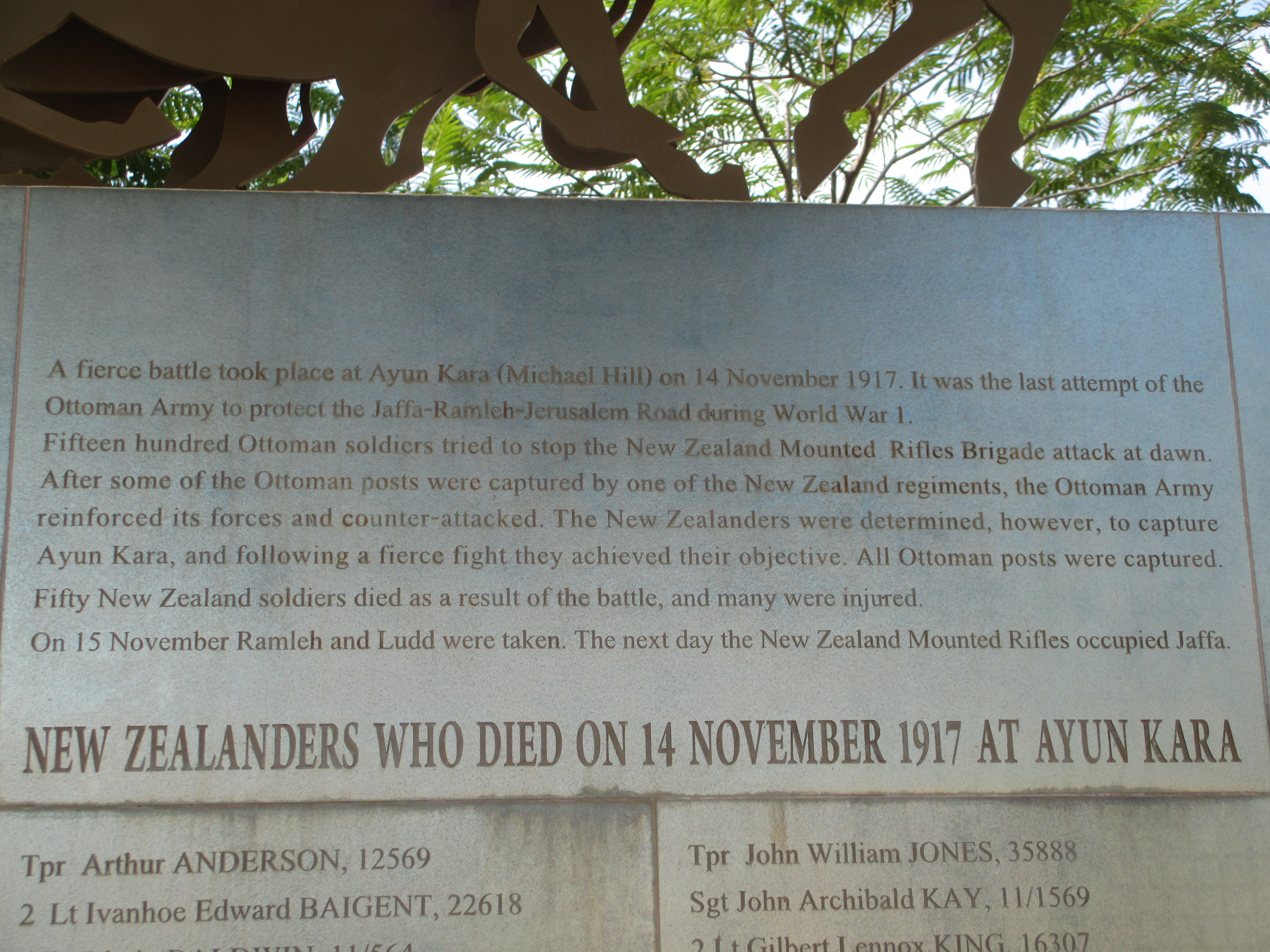 New Zealand soldiers memorial in Ness Ziona